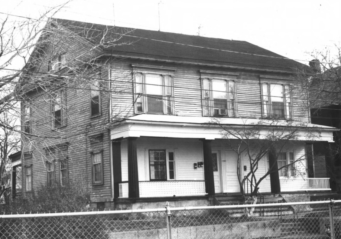 Eagle's Nest, Bridgeport, Connecticut. Building was demolished many years ago; a school stands on its site now.